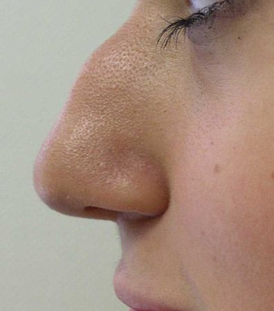 Hump nose (18-year-old woman)